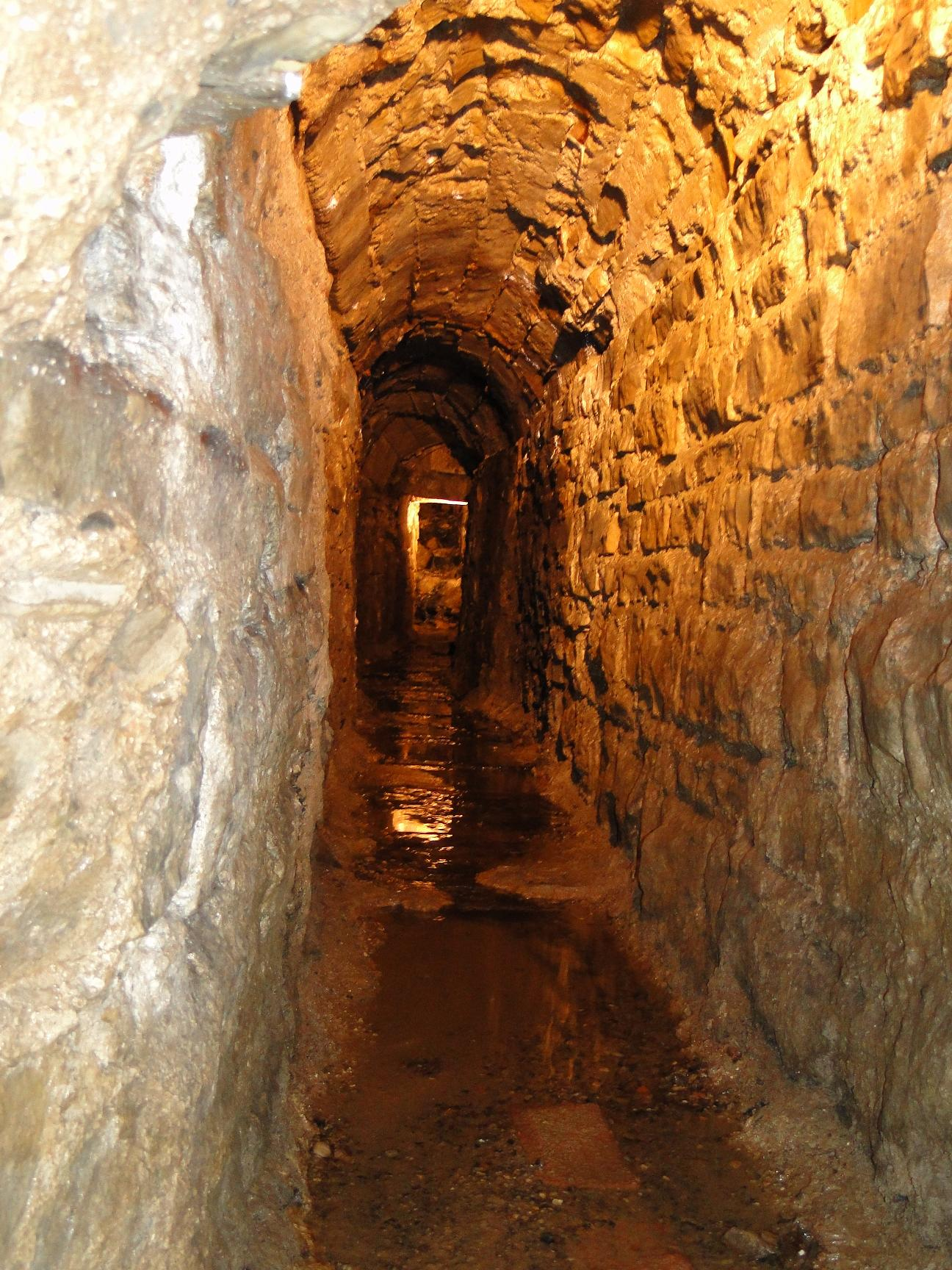 Lantro Fountain, Bergamo, Italy